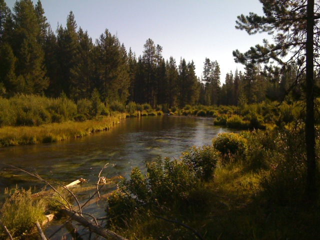 A typical stretch of the Fall River (Deschutes County, Oregon) in summer